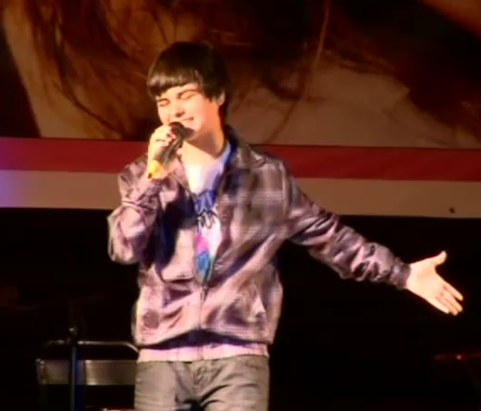 This photo was taken at a Benefit Concert for Yasmina. Bahia Sur Hall, San Fernando Cadiz, Spain. 17 April 2010